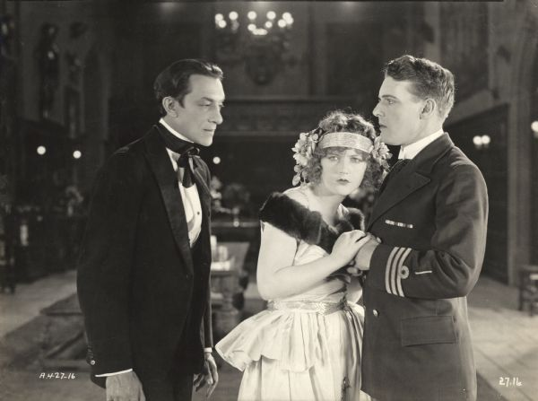 Dr. Dimitrius (played by Pedro de Cordoba) looks meaningfully at Diana May (Marion Davies) who clings to Commander Richard Cleeve (Forrest Stanley) in a scene still from the 1922 silent drama The Young Diana.